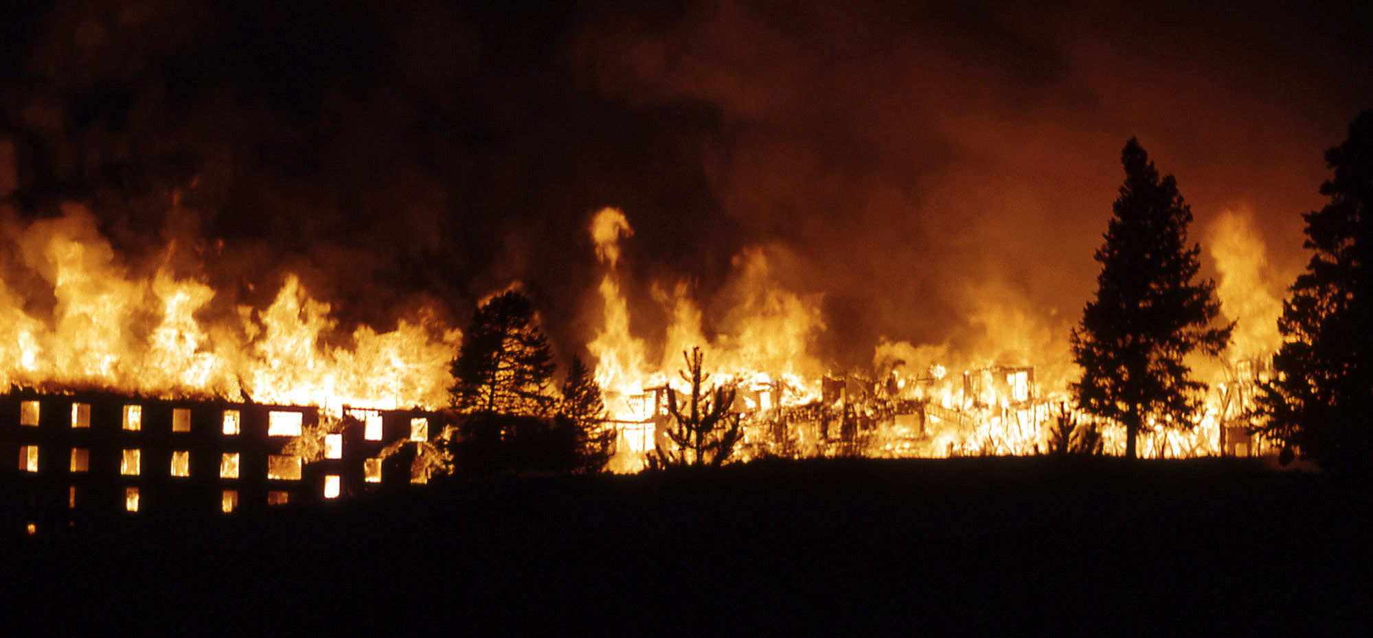 Historic Yellowstone Canyon Hotel — being destroyed in a fire, in 1960. Located in Yellowstone National Park, Wyoming. Credits Original public-domain NPS image cropped.